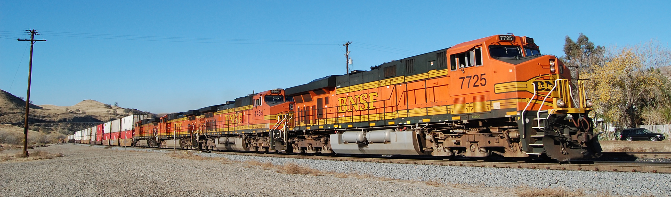 Documents the existence of the Mojave Subdivision, Union Pacific Railroad line This image: Was captured using film or digital camera equipment. May lack artistic merit but documents the existence of the subject. May have had elements including colors, composition, gamma, exposure, or size adjusted using camera-, lens-, scanner-settings or by applying image editing software. May have had aberrations, flare, or reflections removed in order that the subject of the image is more clearly visible. Is intended to be representative of the view of the subject that would be perceived by a human eye.